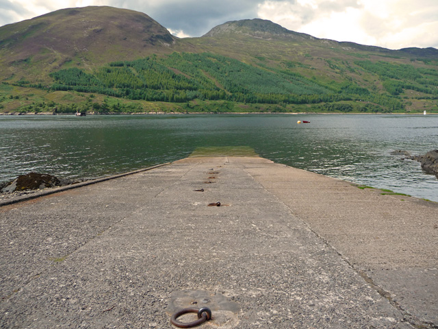 Slipway on Kyle Rhea The mainland terminal of the Glenelg-Kylerhea ferry service. Across the water on Skye are Beinn Bhuidhe and Beinn na Caillich.